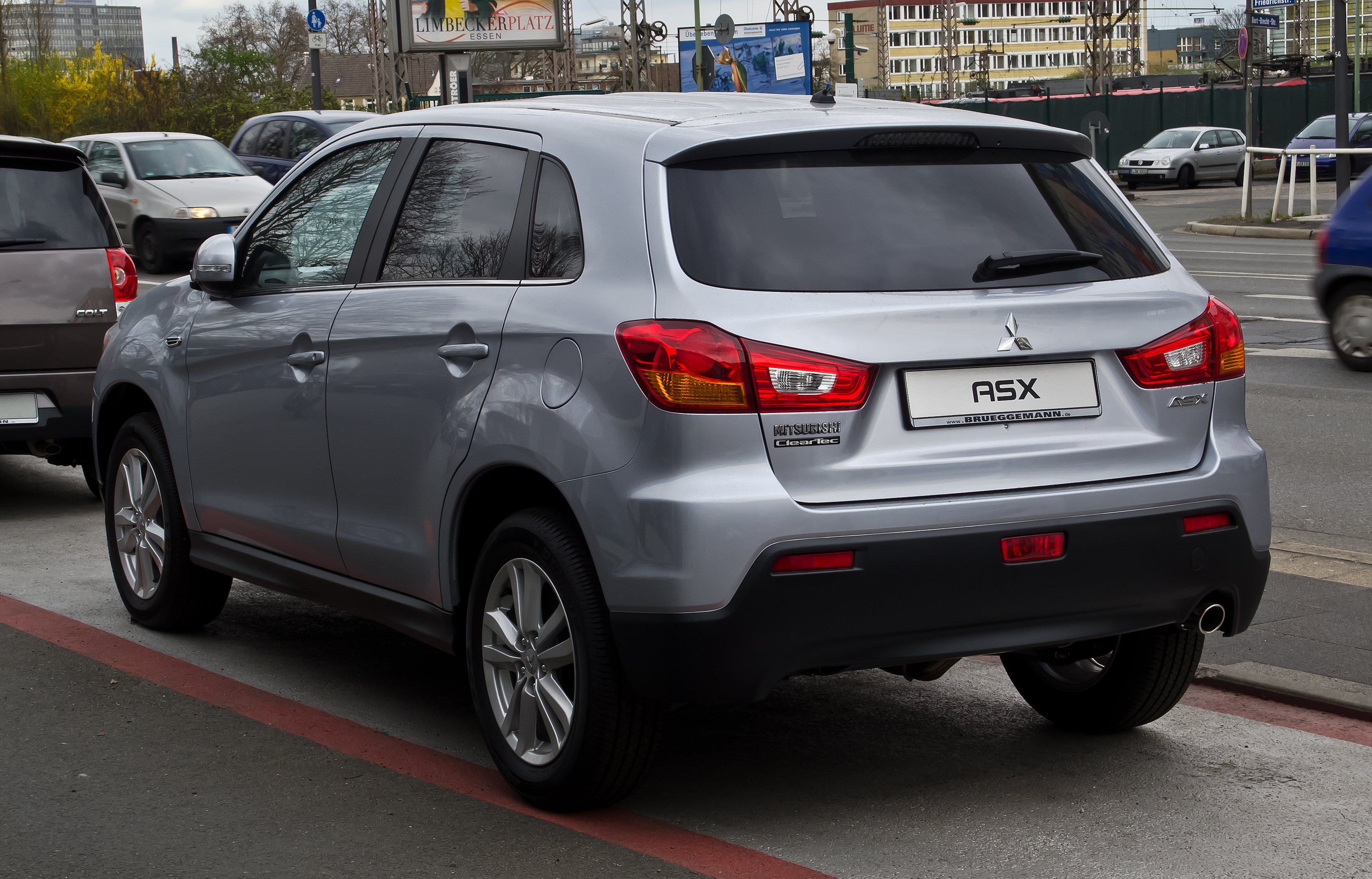 Mitsubishi ASX 1.8 DI-D+ ClearTec Edition